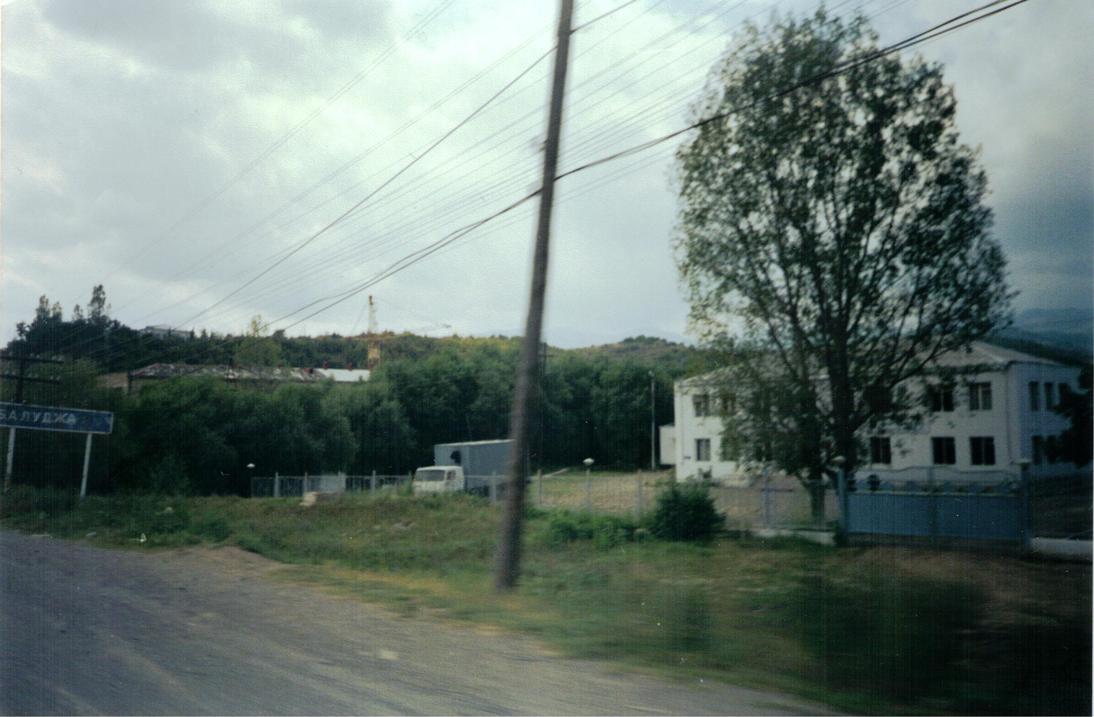 View of village Ballica